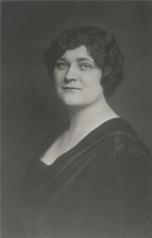 Czech actress Růžena Nasková, member of National Theatre (Prague), civil photo